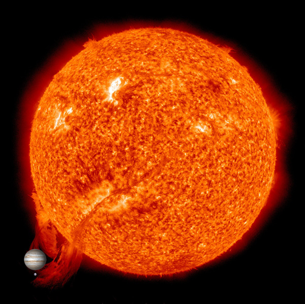 Prominence imaged on Dec 6, 2010 with Jupiter and Earth images superimposed to demonstrate the size